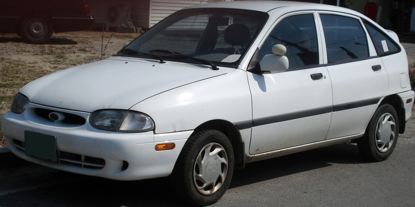 Kia Avella